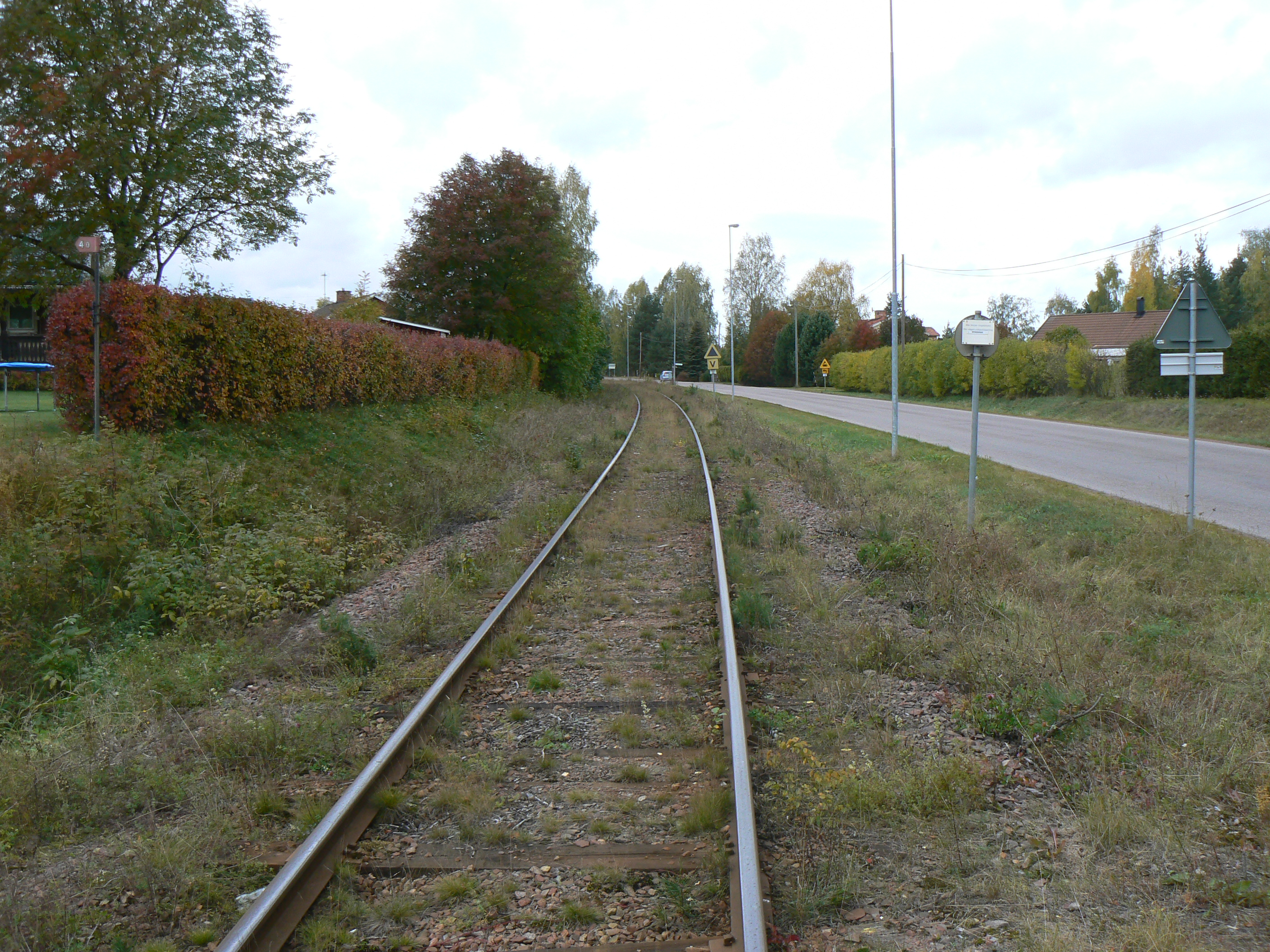 The Mora-Märbäck Railway in Sweden.